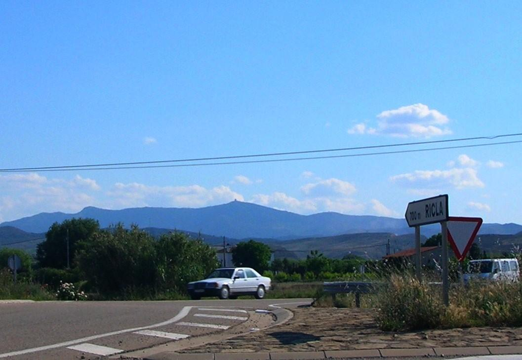 View of Sierra de Vicort from near Ricla. The weather radar radome can be discerned on the highest summit, 1,411 m high Pico de Santa Brígida.